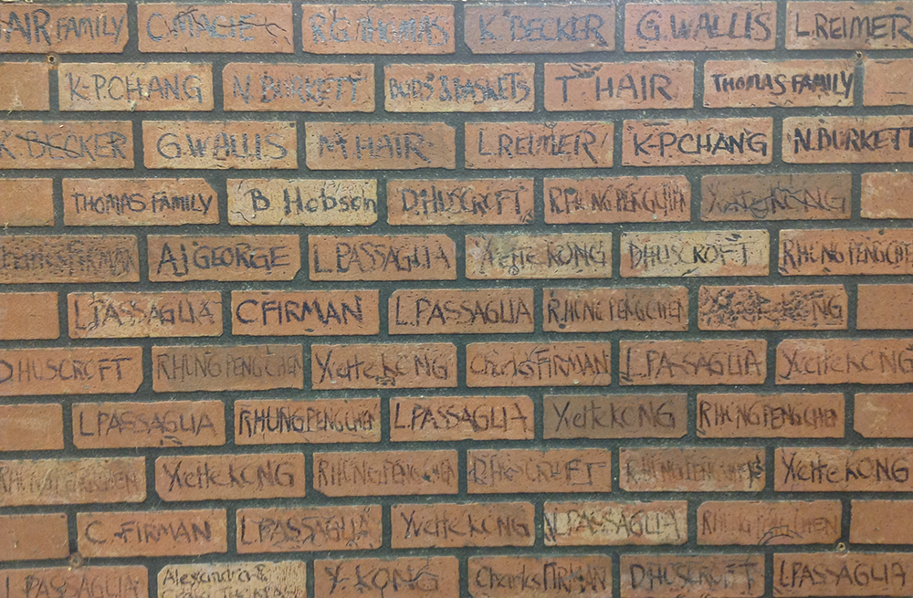 This is a picture of a section of the wall of bricks that were made as part of the 'Buy a Brick - Build a School' campaign that resulted in teh building of Gleneagle Secondary School in Coquitlam, BC, Canada. This panel was donated to the school upon its opening in 1997 and is stored in our library. This is a larger higher resolution image of the wall.